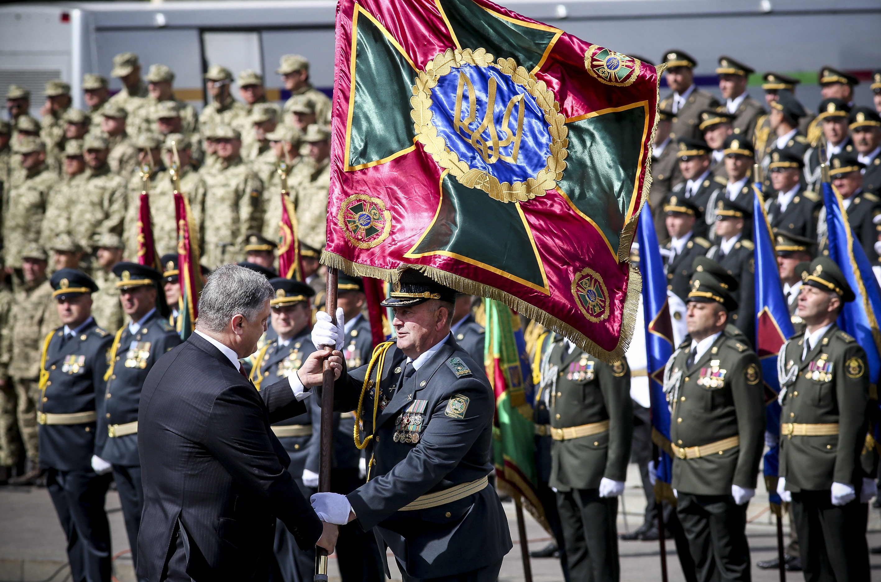 Independence Day military parade in Kyiv. August 24th, 2017